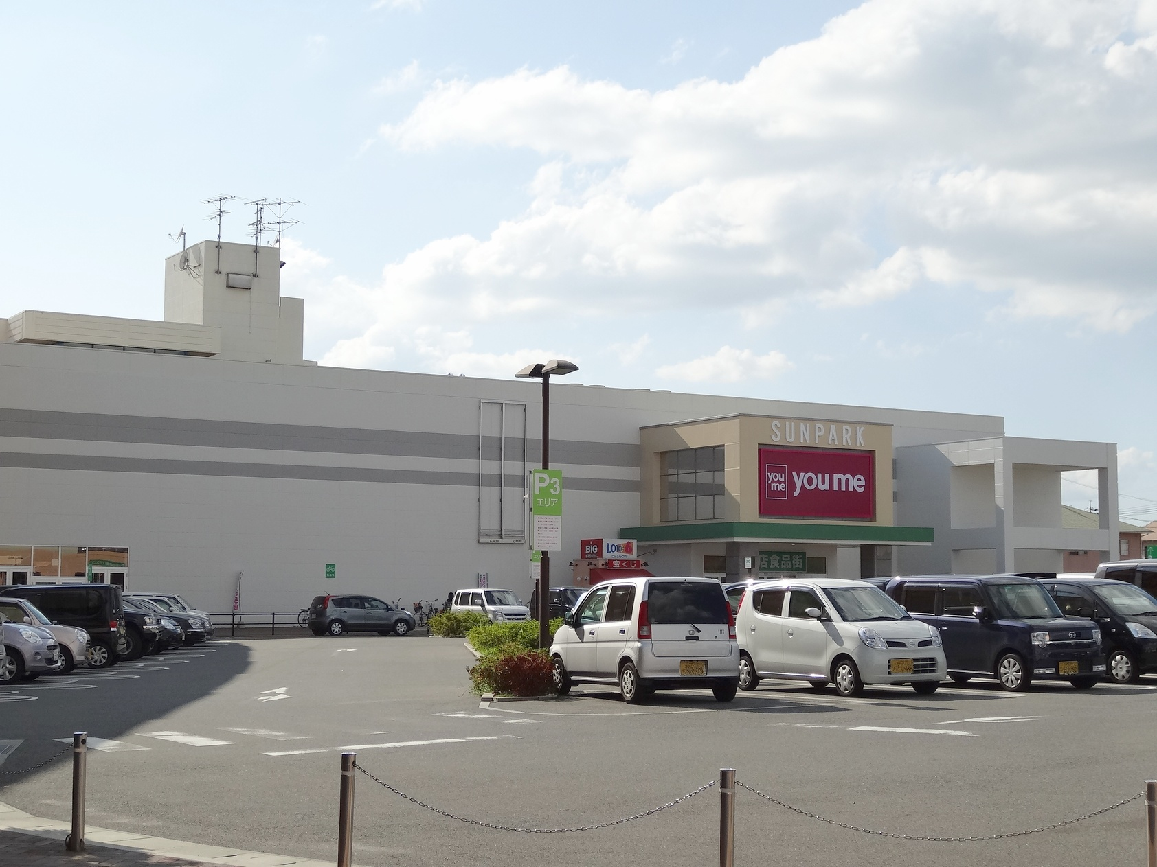 "you me town Onoda" is a part of Onoda SunPark (Shopping Center) in Sanyo-Onoda City, Yamaguchi, Japan.